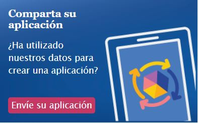 Screenshot from EUODP